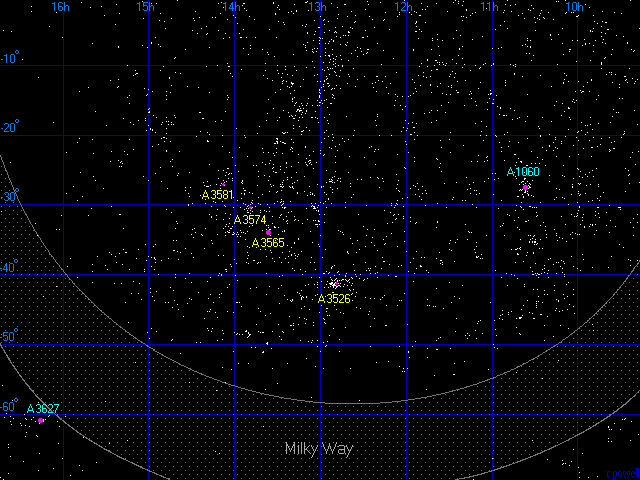 Two-dimensional map of the Centaurus Supercluster Credits: Powell, Richard. Atlas of the Universe Copyrights information